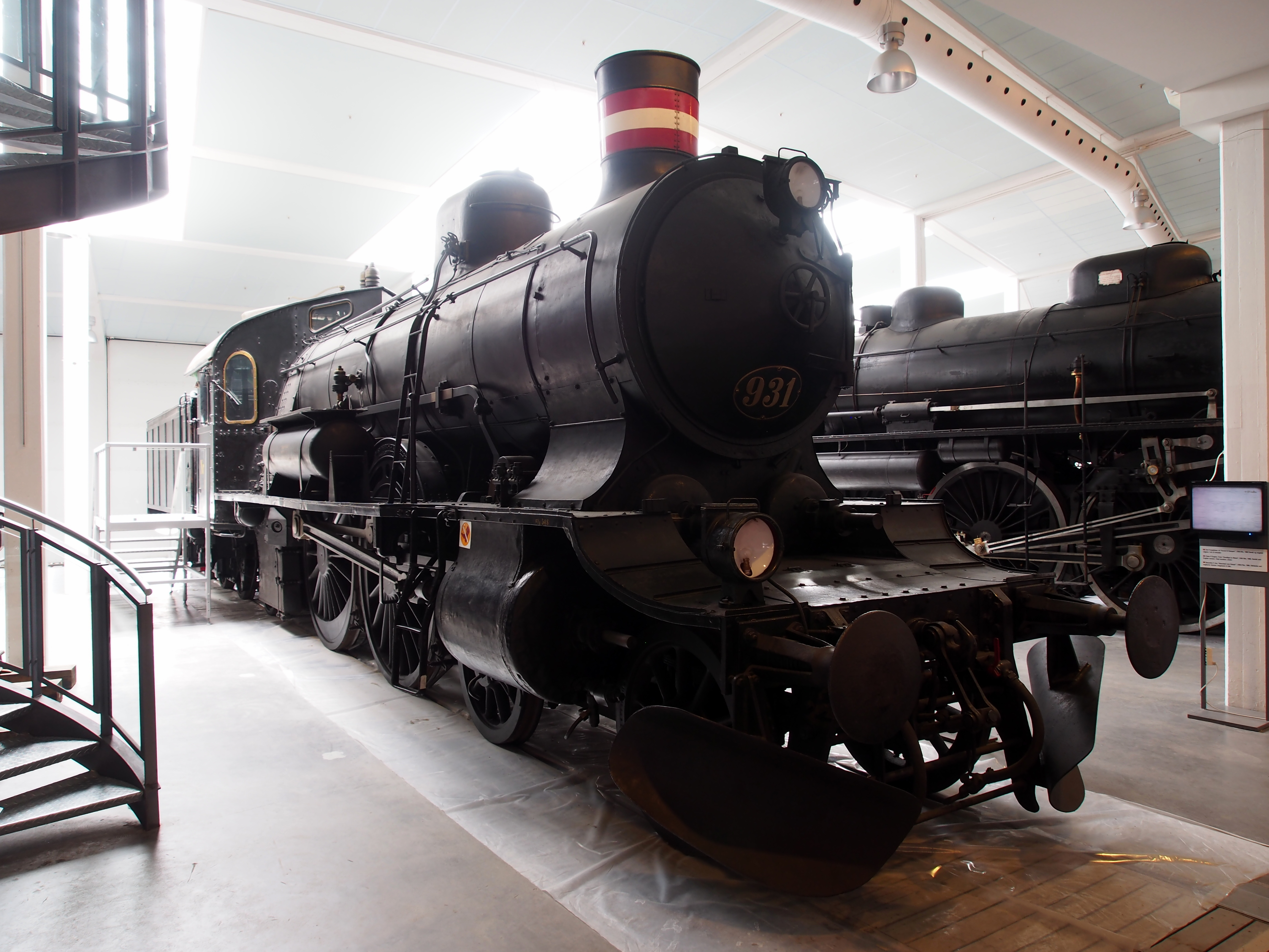 Photographed at the Danmarks Jernbanemuseum.